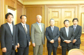 Tsutomu Satō, Sakihito Ozawa, Kōichi Yamauchi, Nobuhide Minorikawa and Kentarō Sonoura, Members of the House of Representatives, met George Provopoulos, Governor of the Bank of Greece, at the Headquarters of the Bank of Greece in Athens City, Central Athens Regional Unit, Attica Region on September 23, 2013.